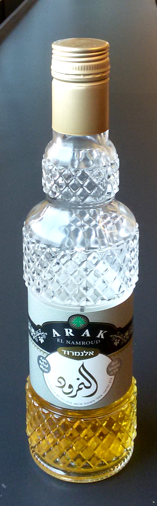 A bottle of "El Namroud" aged arak from the distillery in the Goren Industrial Area, Moshav Goren, Israel